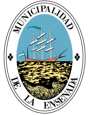 Coat of armas of Ensenada, a city of La Plata Partido in Buenos Aires Province.